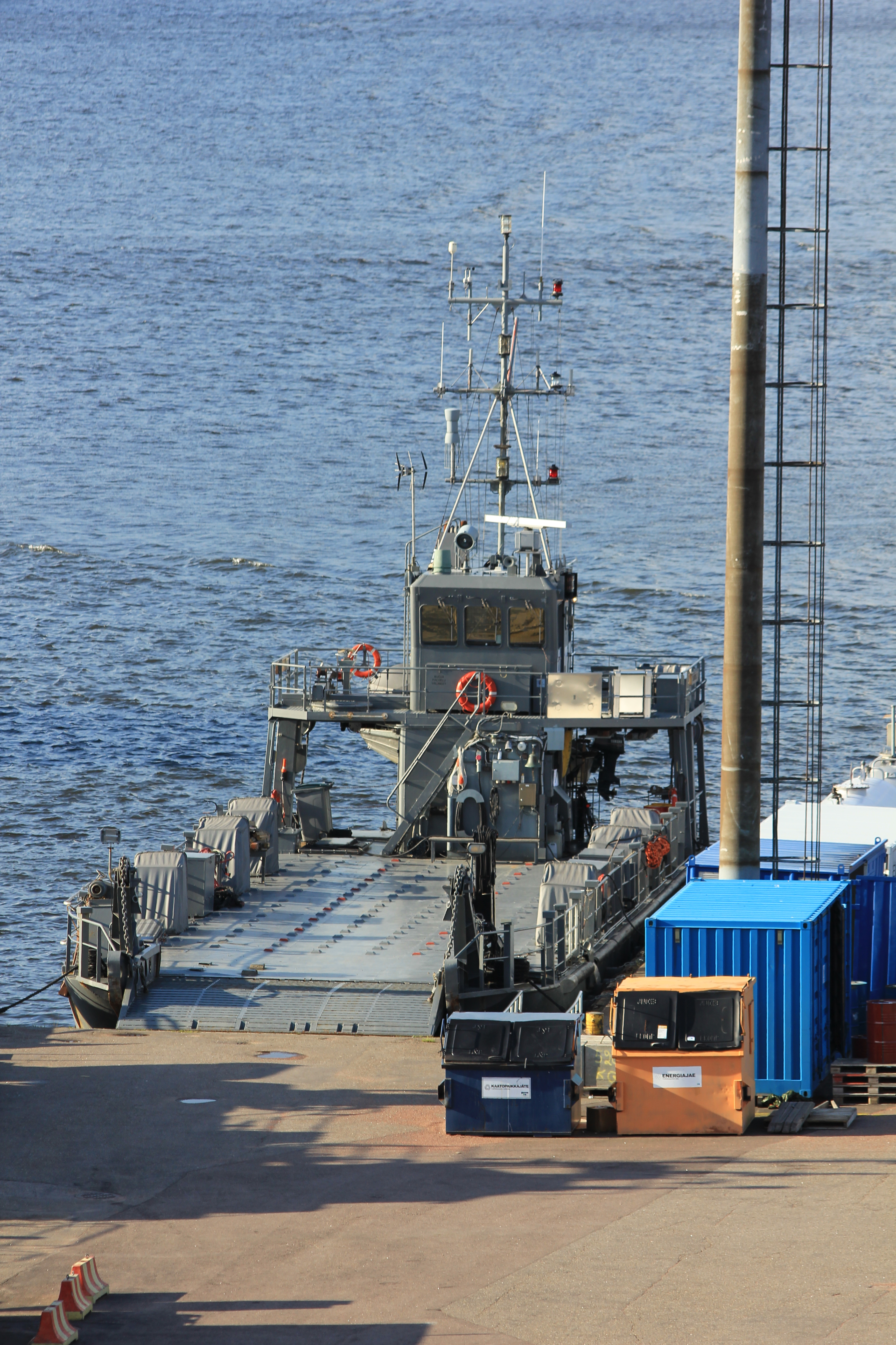 Finnish navy transport ferry Kampela 3 (877) in Kuusinen harbour.